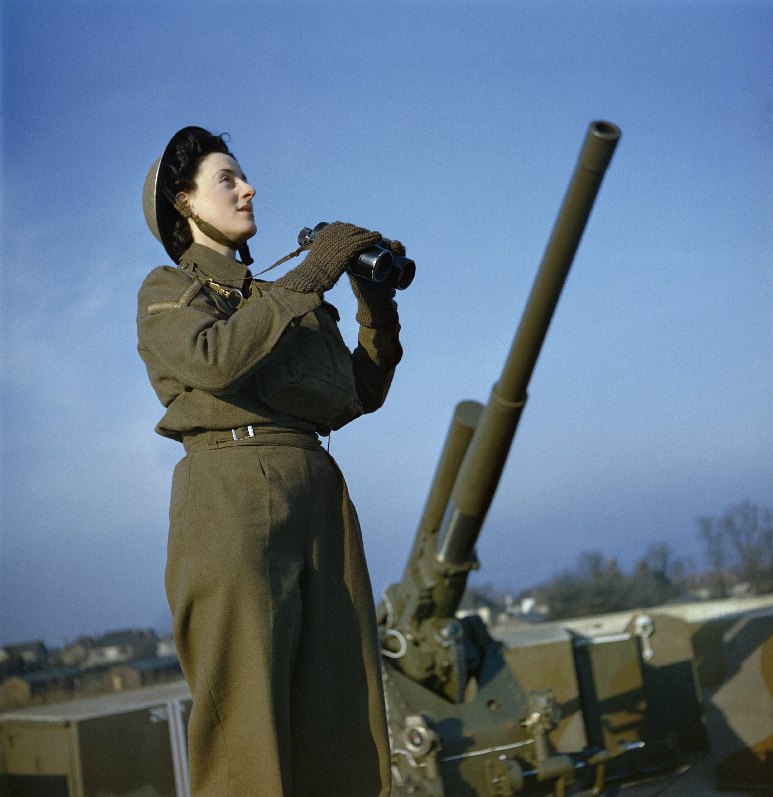 A member of the ATS (Auxiliary Territorial Service) serving with a 3.7-inch anti-aircraft gun battery, December 1942. ATS spotter with binoculars at the anti-aircraft command post, with a 3.7 inch anti-aircraft gun in the background.